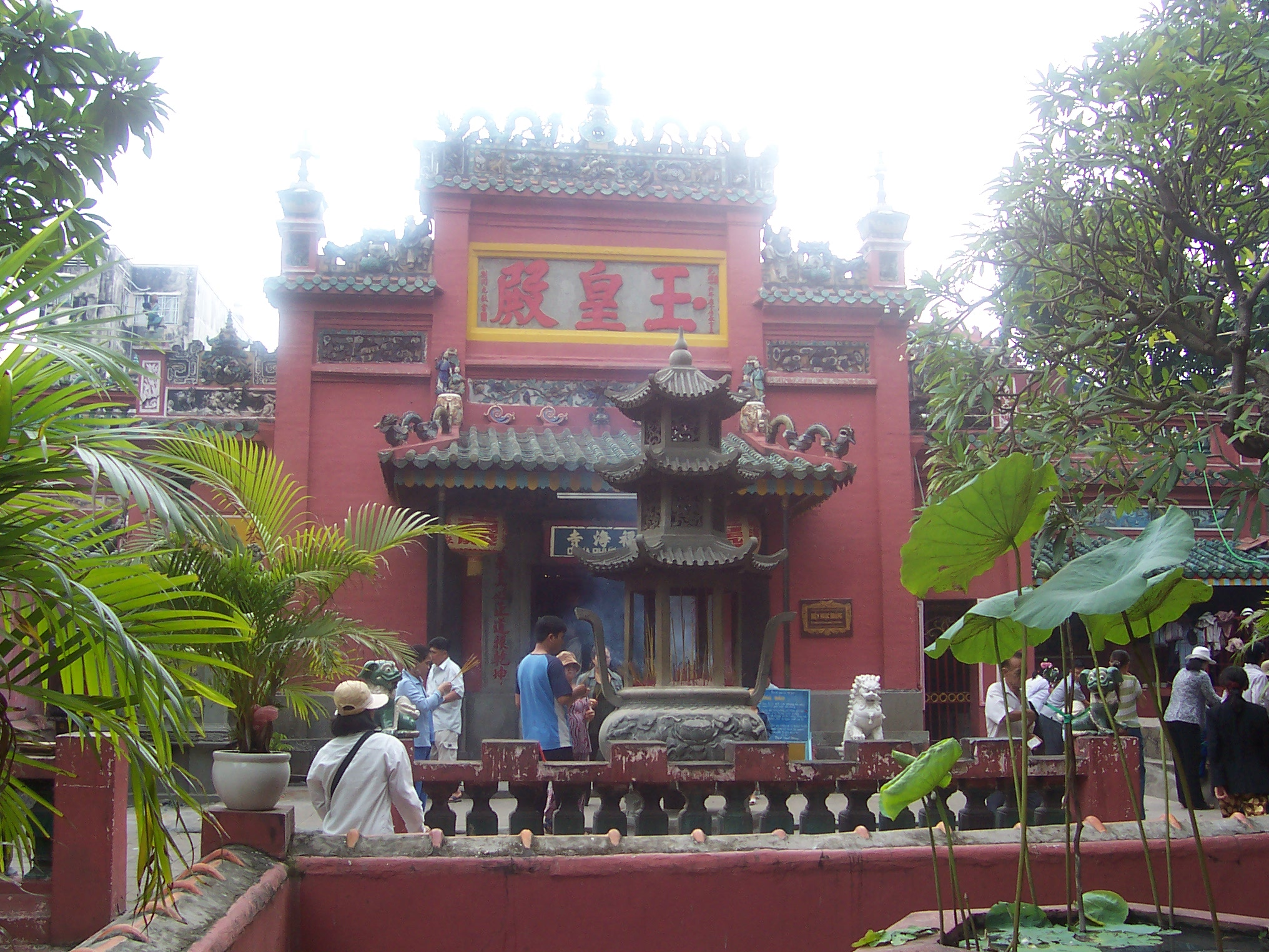 Scene of Jade Emperor Pagoda Ho Chi Min City